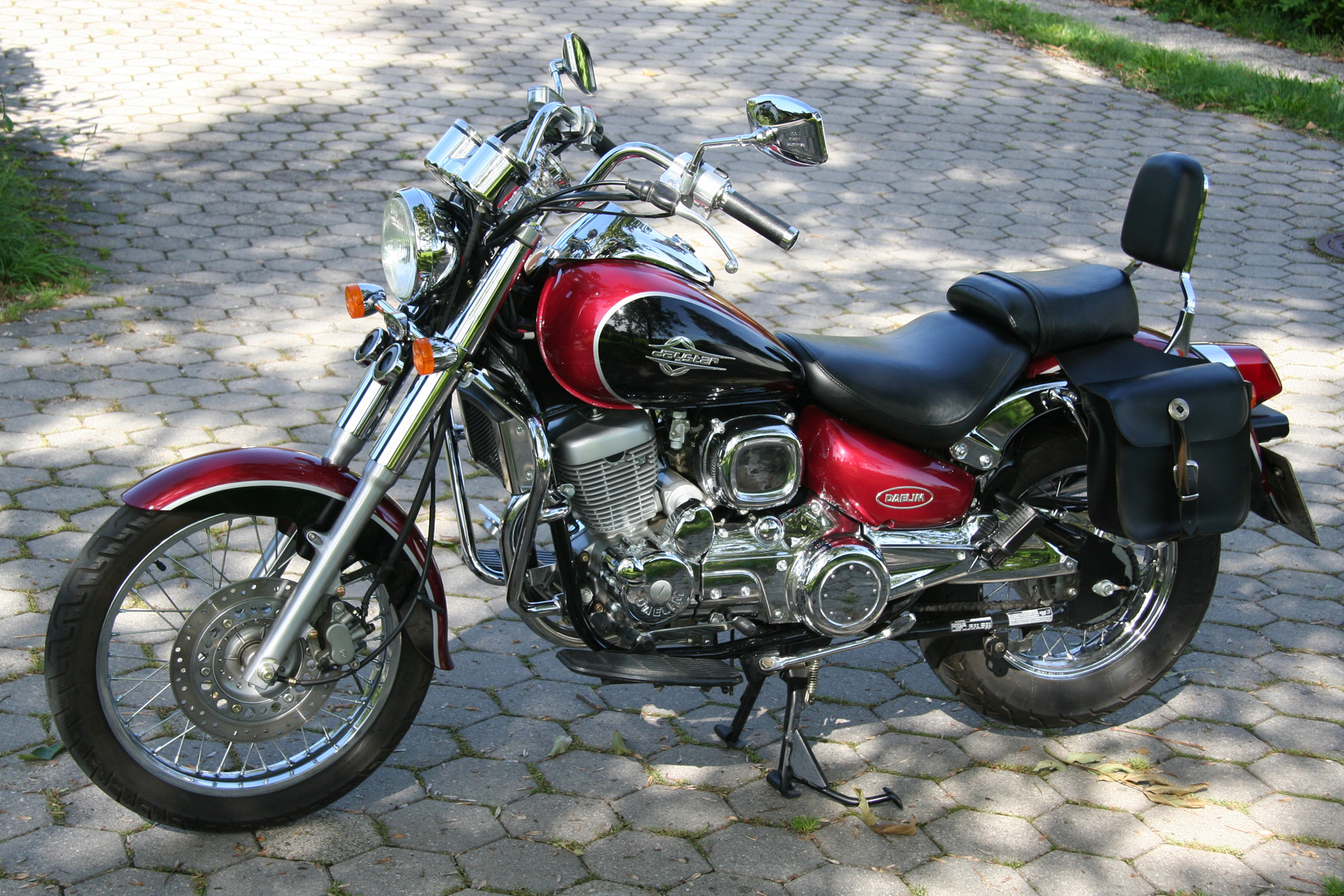 Daelim VL125 "Daystar", 125 cc, 10 kW /14 hp, model year 2001